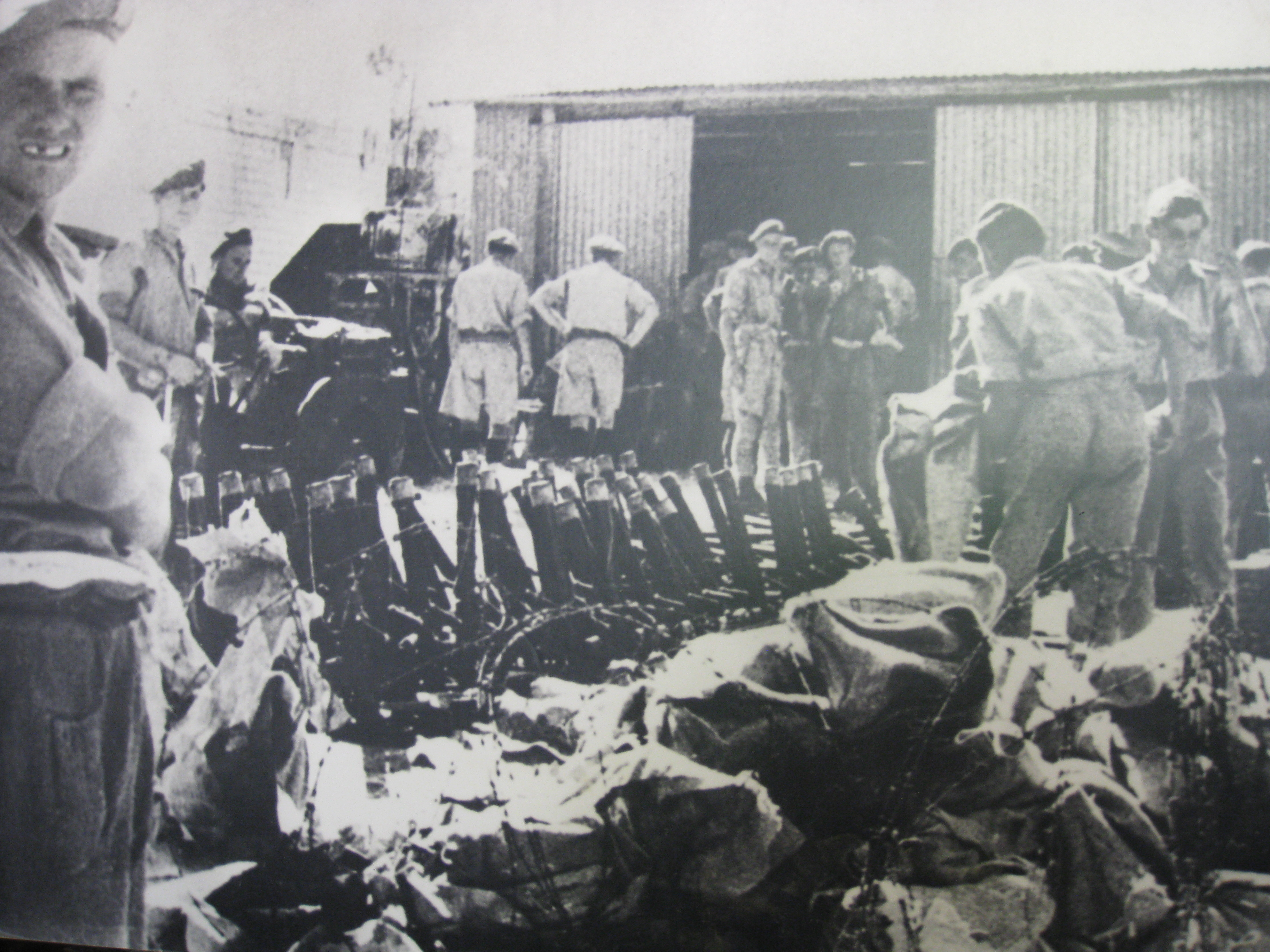 British soldiers search for the "Slik" - Hagana arms cache in Kibutz Yagur